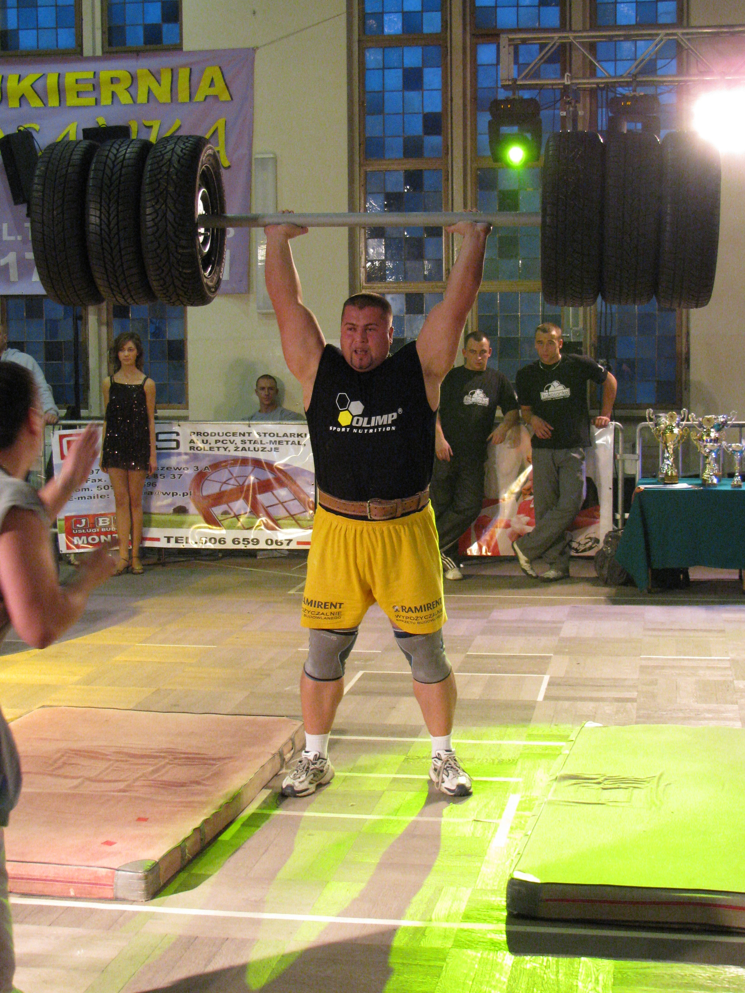 Strongmen event: the Axle Lift & Wojciech Jastrząb.